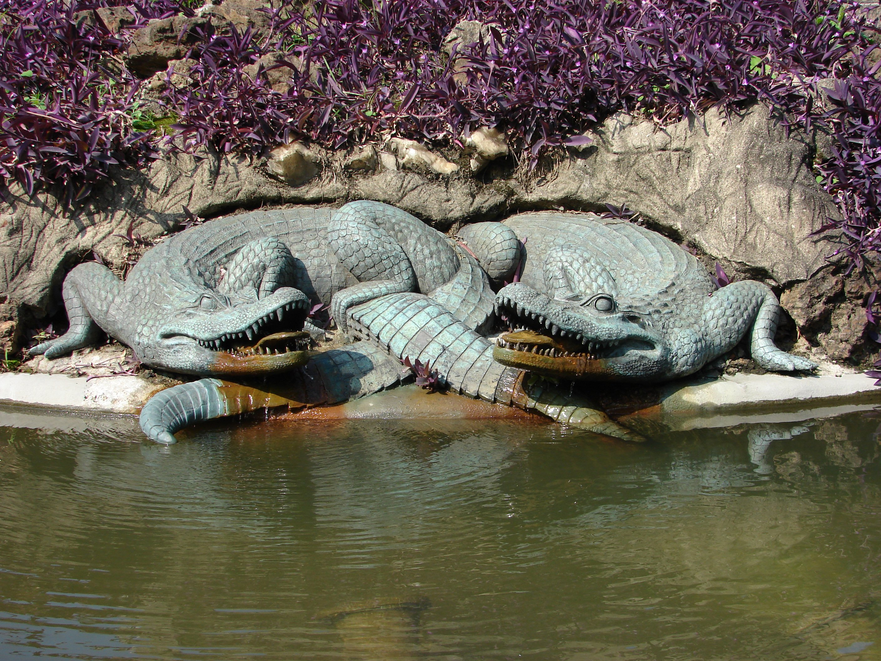 Alligators fountain detail.